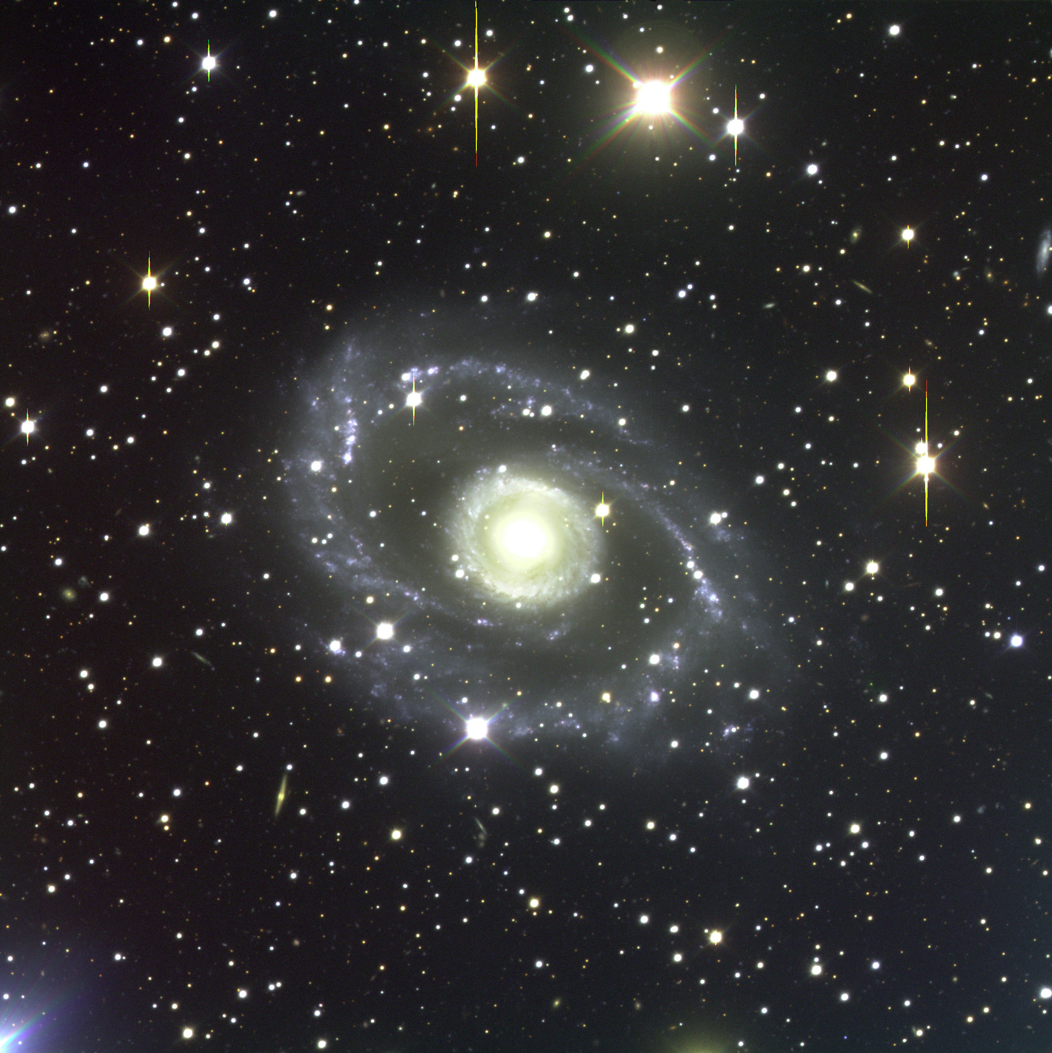 Spiral Galaxy ESO 269-57 Photo credit